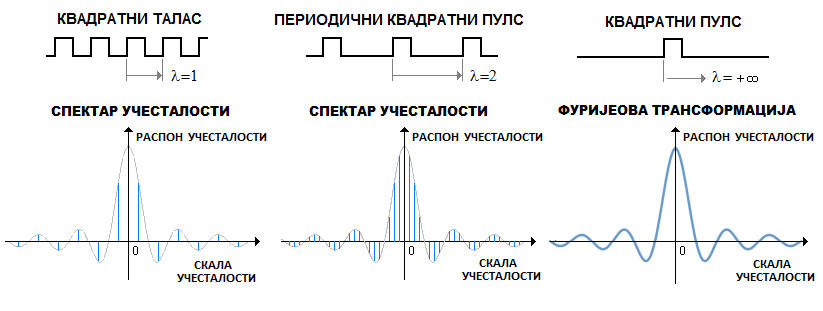 СПЕКТАР (ЛЕПЕЗА) УЧЕСТАЛОСТИ